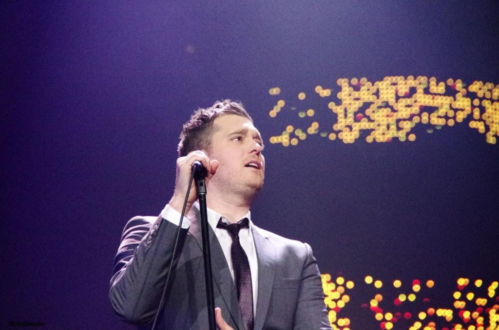 Michael Bublé performing in Cologne, Lanxess Arena, 2012-04-25 21:13:34